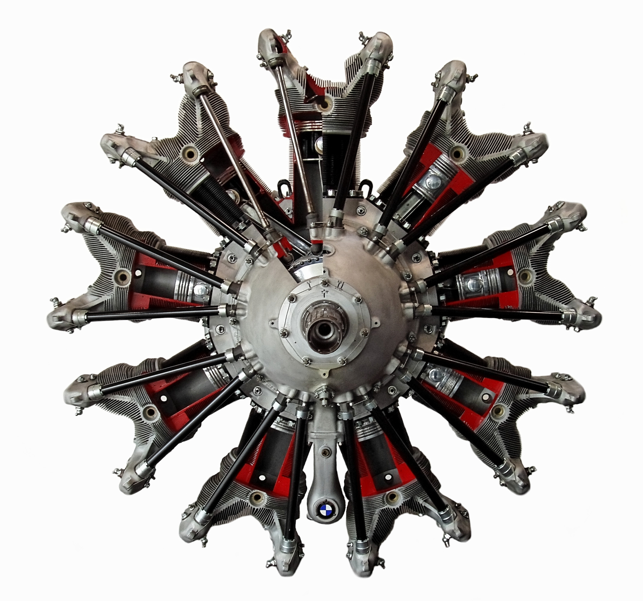 BMW engine of a Junkers Ju 52 in the BMW museum in Munich.